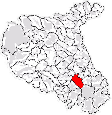 Limits of commune within Vrancea County